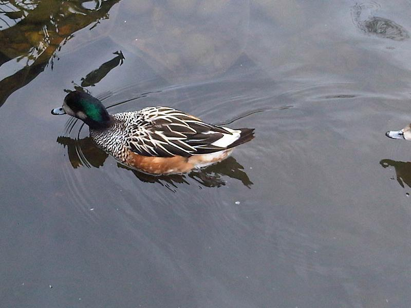 Chiloe Wigeon (Mareca sibilatrix - syn: Anas sibilatrix) in WWT London Wetland Centre, England.